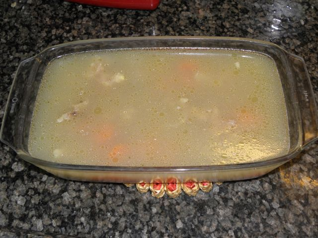 "Regel Krusha" preparation (cold beef soup)